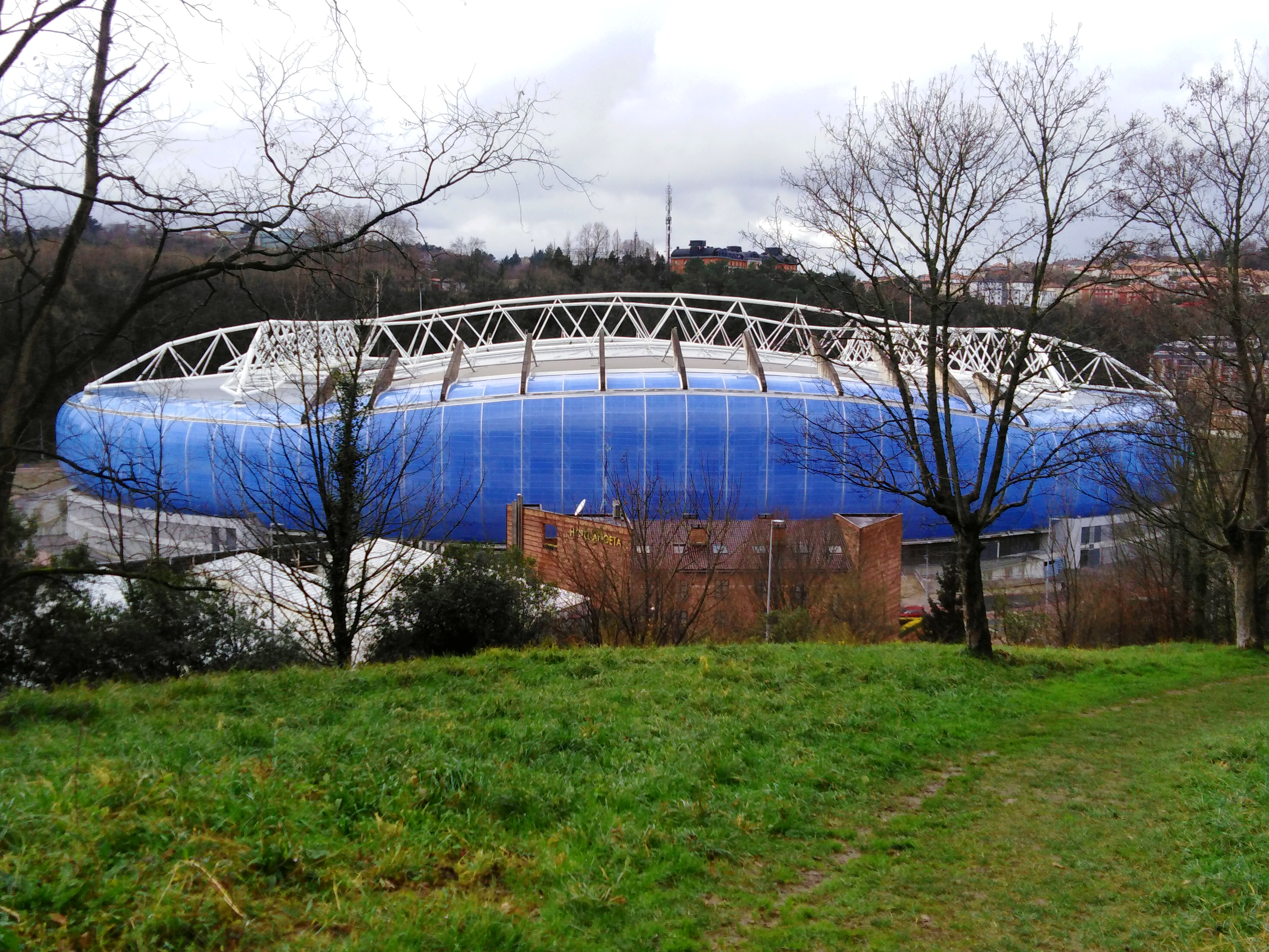 Anoeta stadium, Donostia-San Sebastian, Gipuzkoa, Basque Country